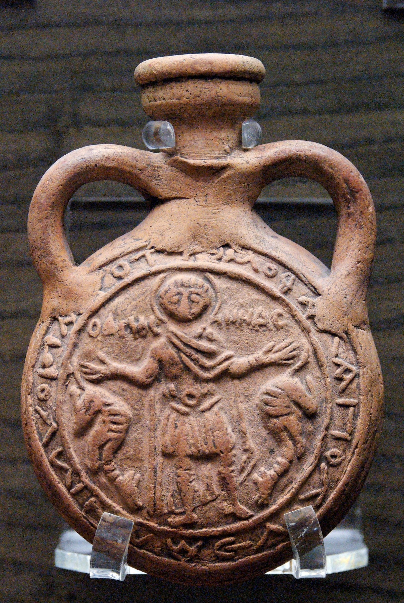 Pilgrim flask representing St Menas with two camels. From the area of Alexandria, Egypt.